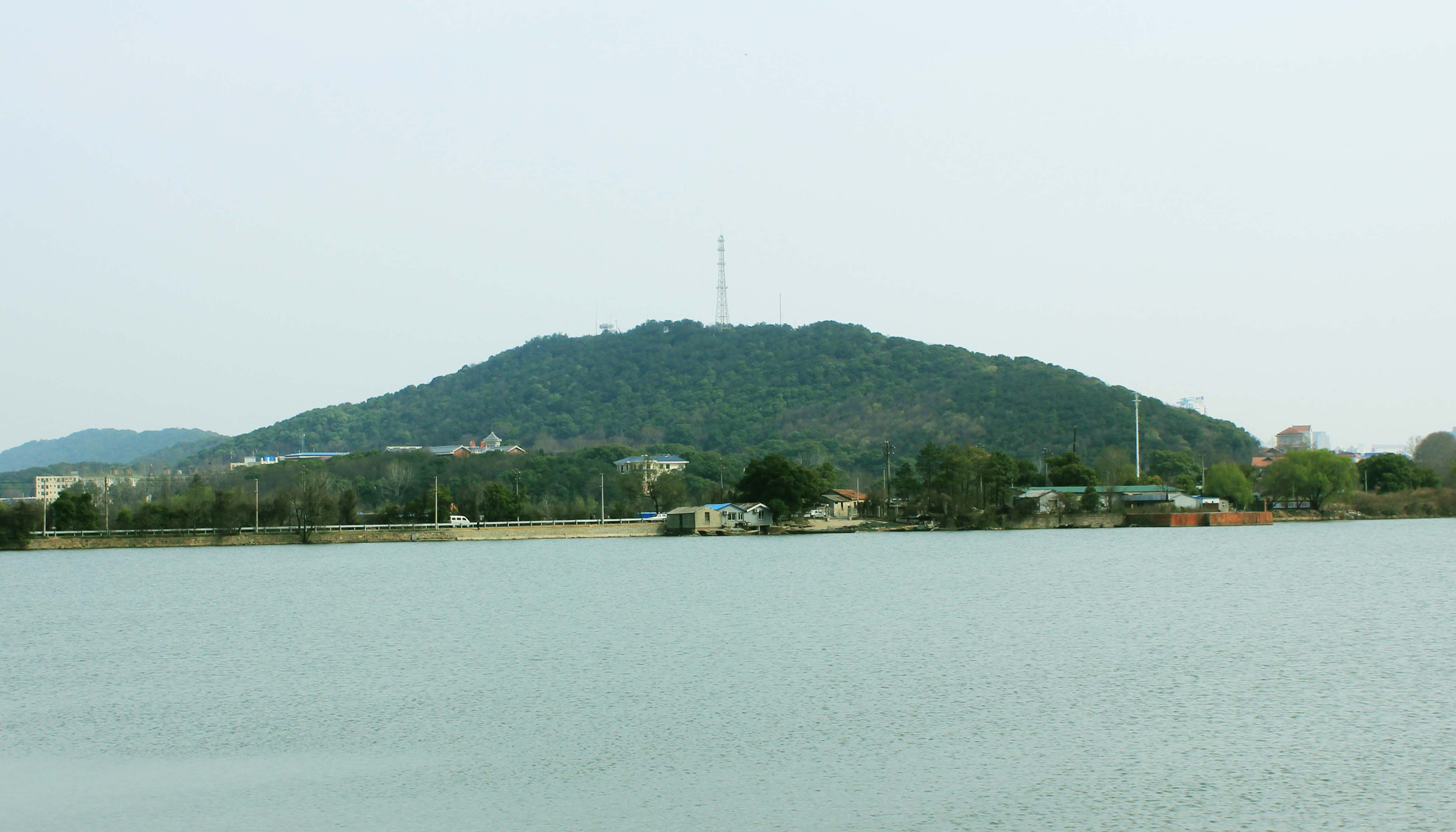 Nanwangshan in Wuhan